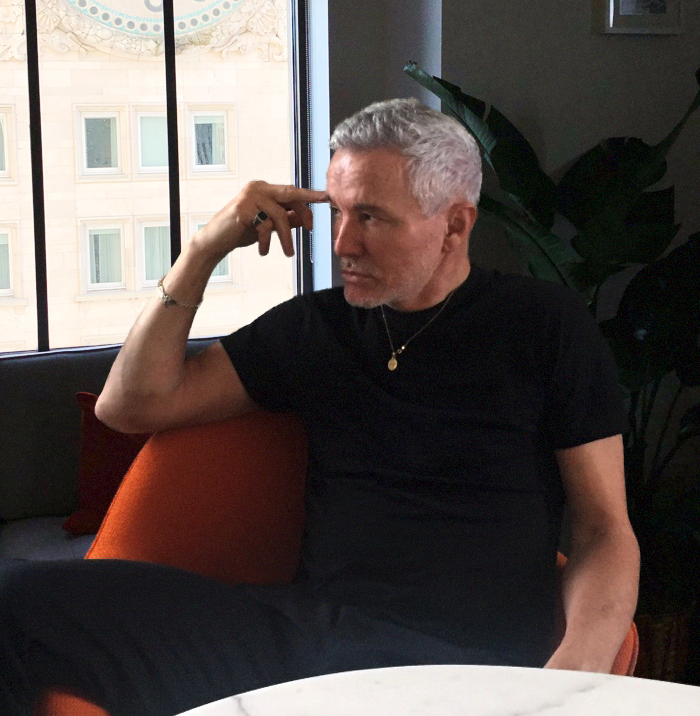 Baz Luhrmann